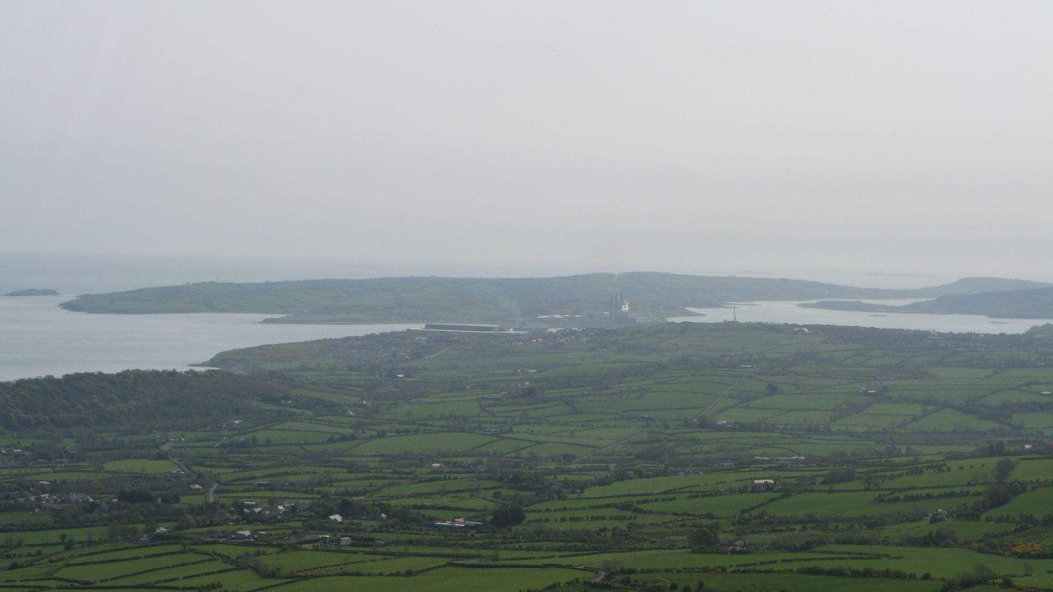 View of Islandmagee, with Ballylumford Power Station, Brown's Bay and Portmuck Island